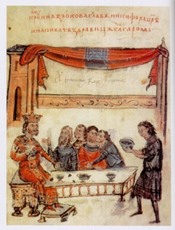 Krum celebrates his victory over Nicephores. Manassias chronicle 1335-1340